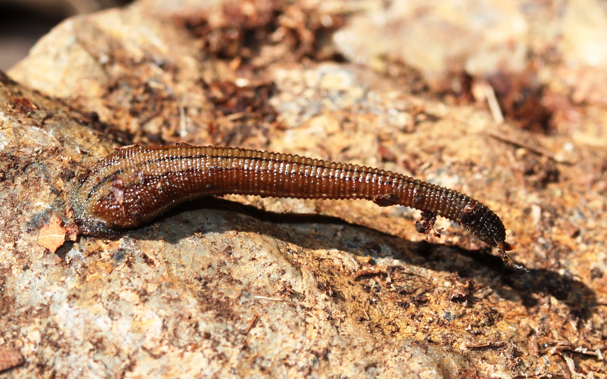 Haemadipsa zeylanica japonica in Japan.